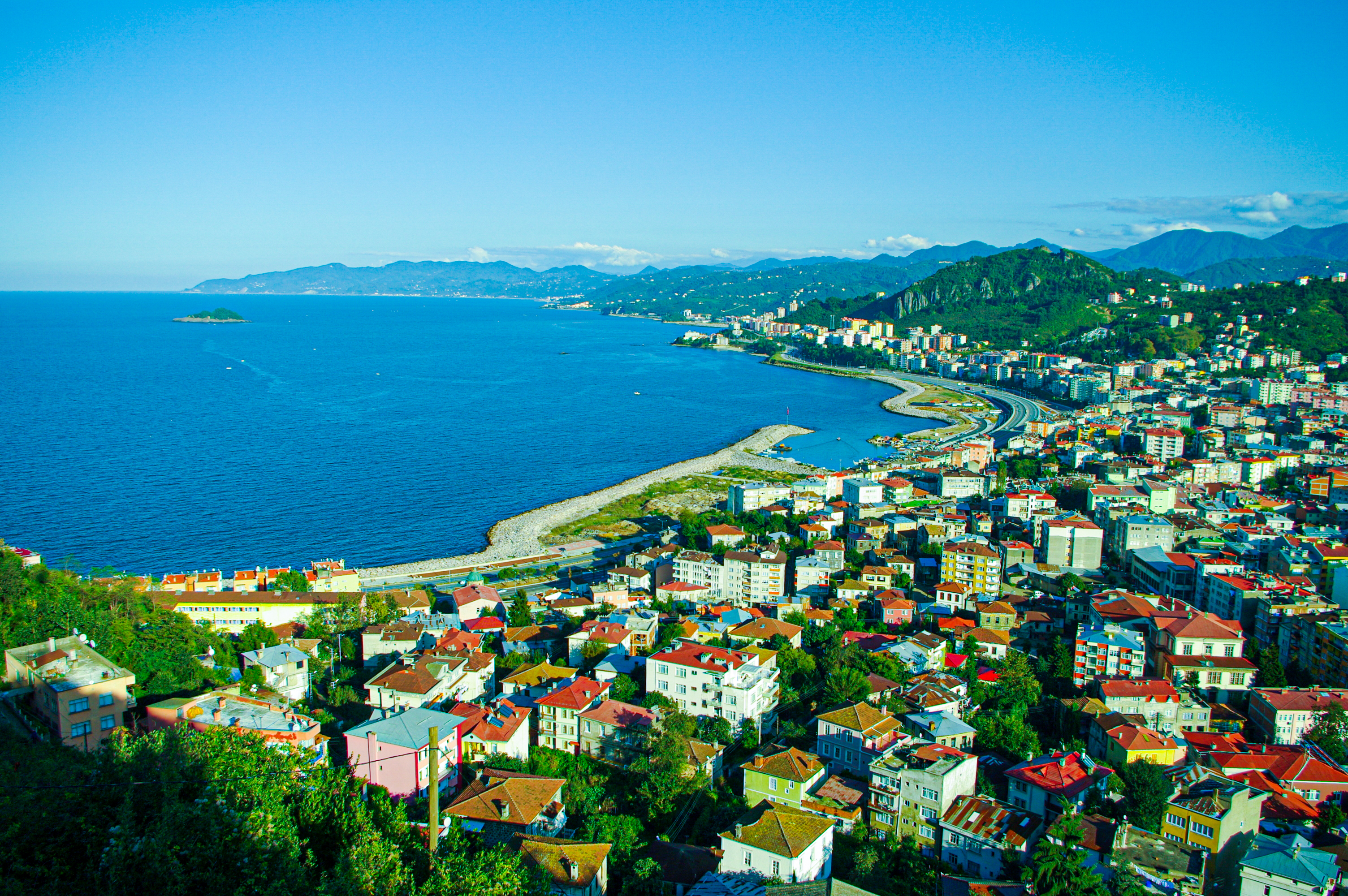 General view of eastern part of Giresun city For more info please visit Giresun